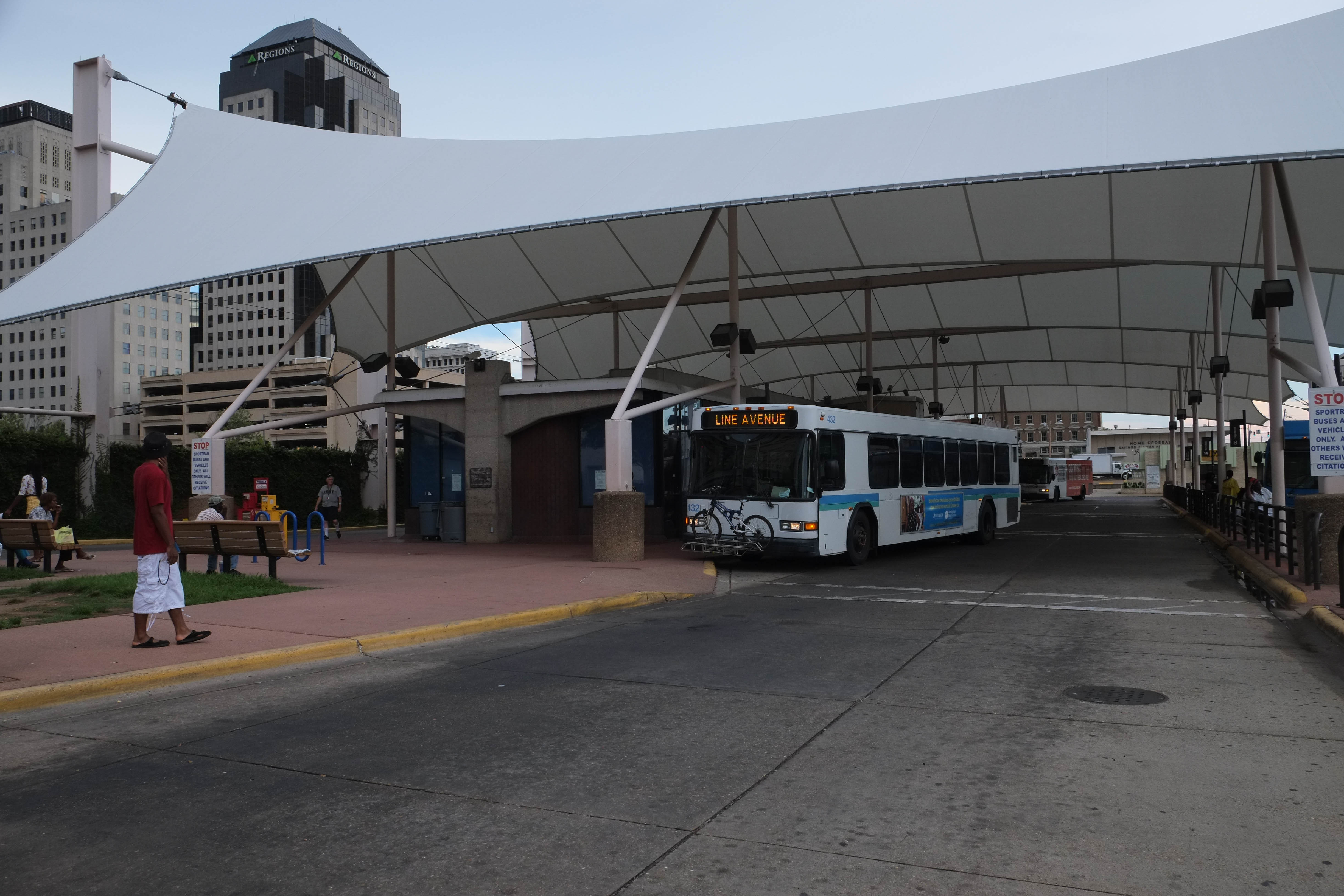 SporTran's Downtown Bus Terminal, in downtown Shreveport, Louisiana, United States.